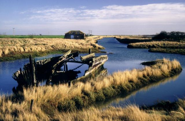 The wreck of the Rose, a Thames sailing barge registered at Maldon, lies by the abandoned quay at Beaumont-cum-Moze. Barges regularly took Essex hay and other produce to London, but now the cutting leading through the marshes to the open sea has silted up. The quay itself is made from stones brought from a former London Bridge.